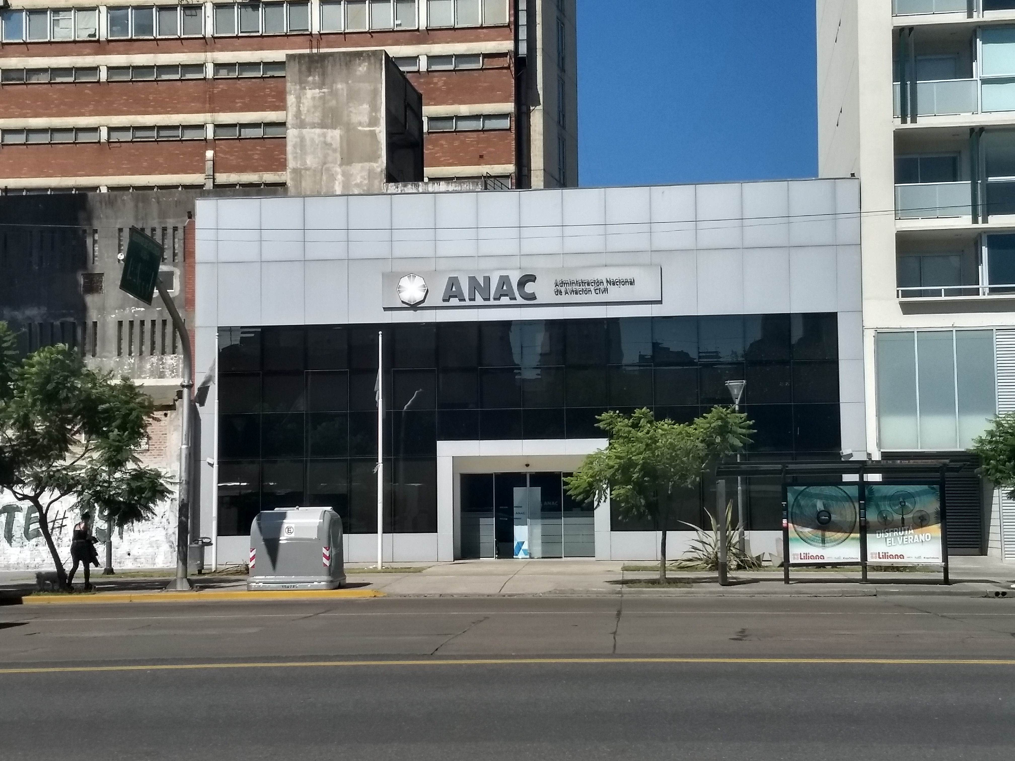 Headquarters of the National Civil Aviation Administration (ANAC), Av. Paseo Colón 1452 CP: (C1063ADO), Buenos Aires, Argentina.